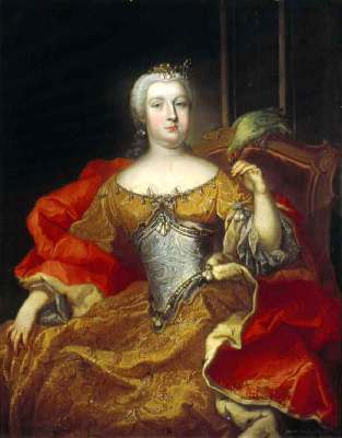 Caroline Louise of Hesse-Darmstadt, margravine of Baden (1723-1783)